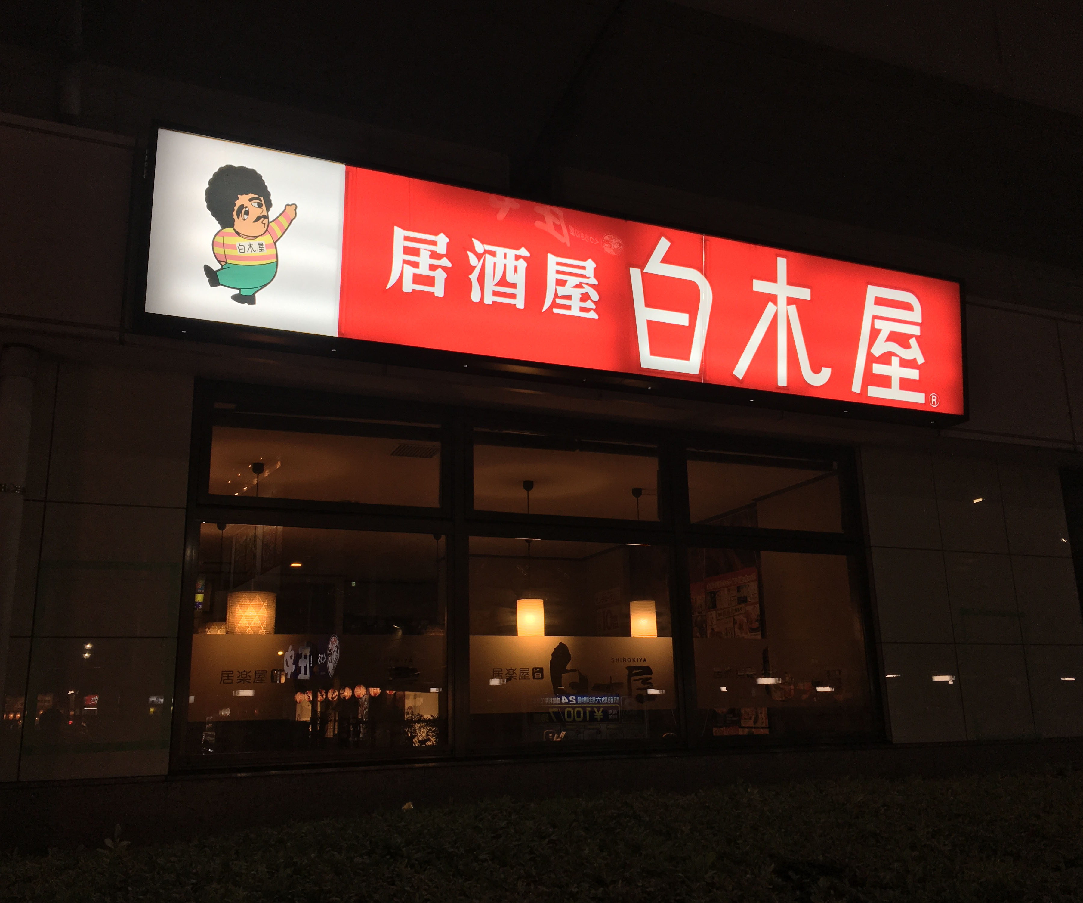 Shirokiya (Japanese bar chain) Yatsuka-ekimae branch (Soka, Japan)